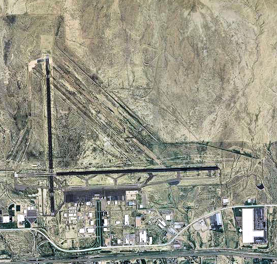 USGS digital orthophoto of Pueblo Memorial Airport in Colorado